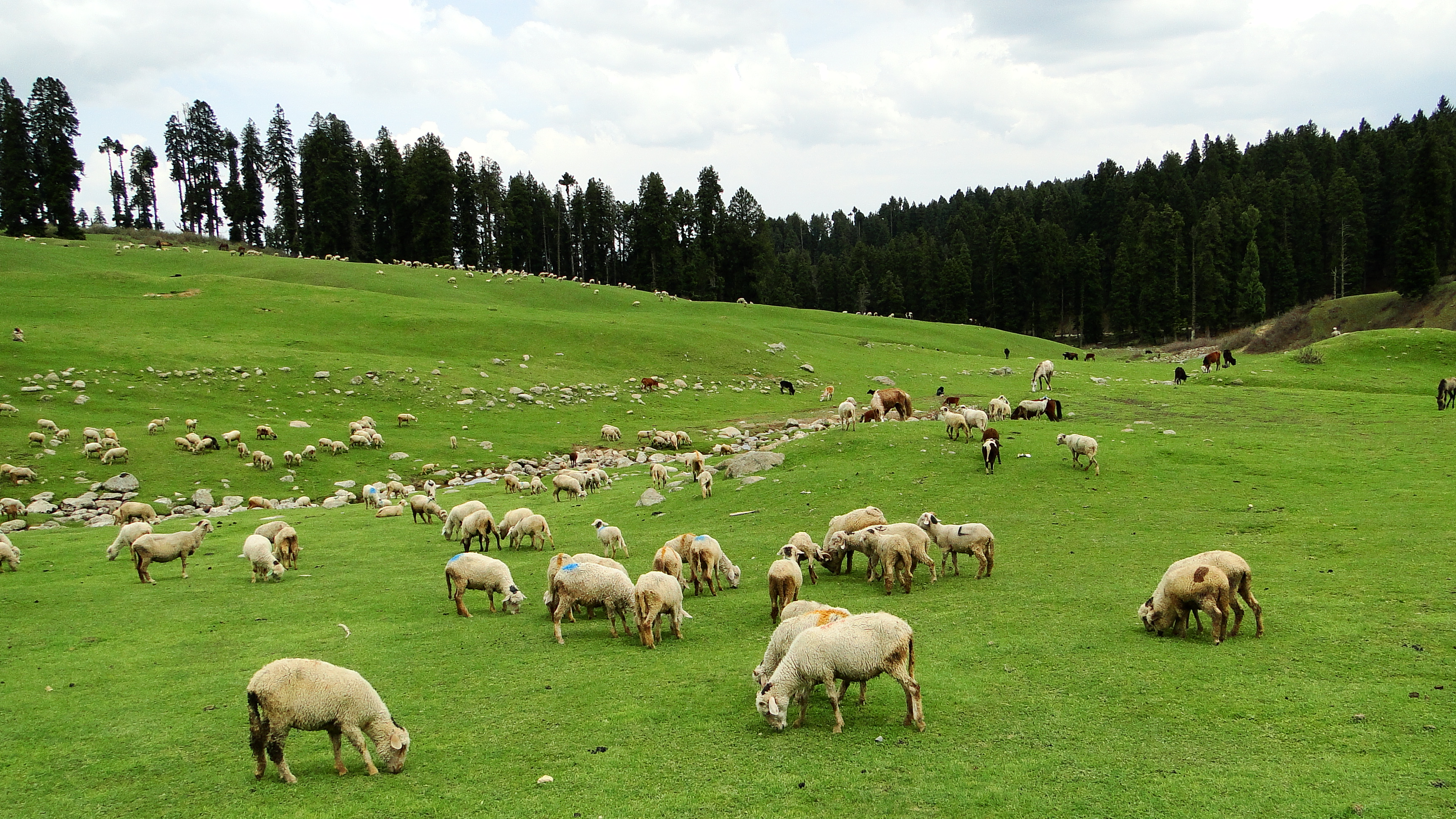 Doodhpathri. Nature, scenery in the Himalayas, southwest Jammu and Kashmir, India, May 2014